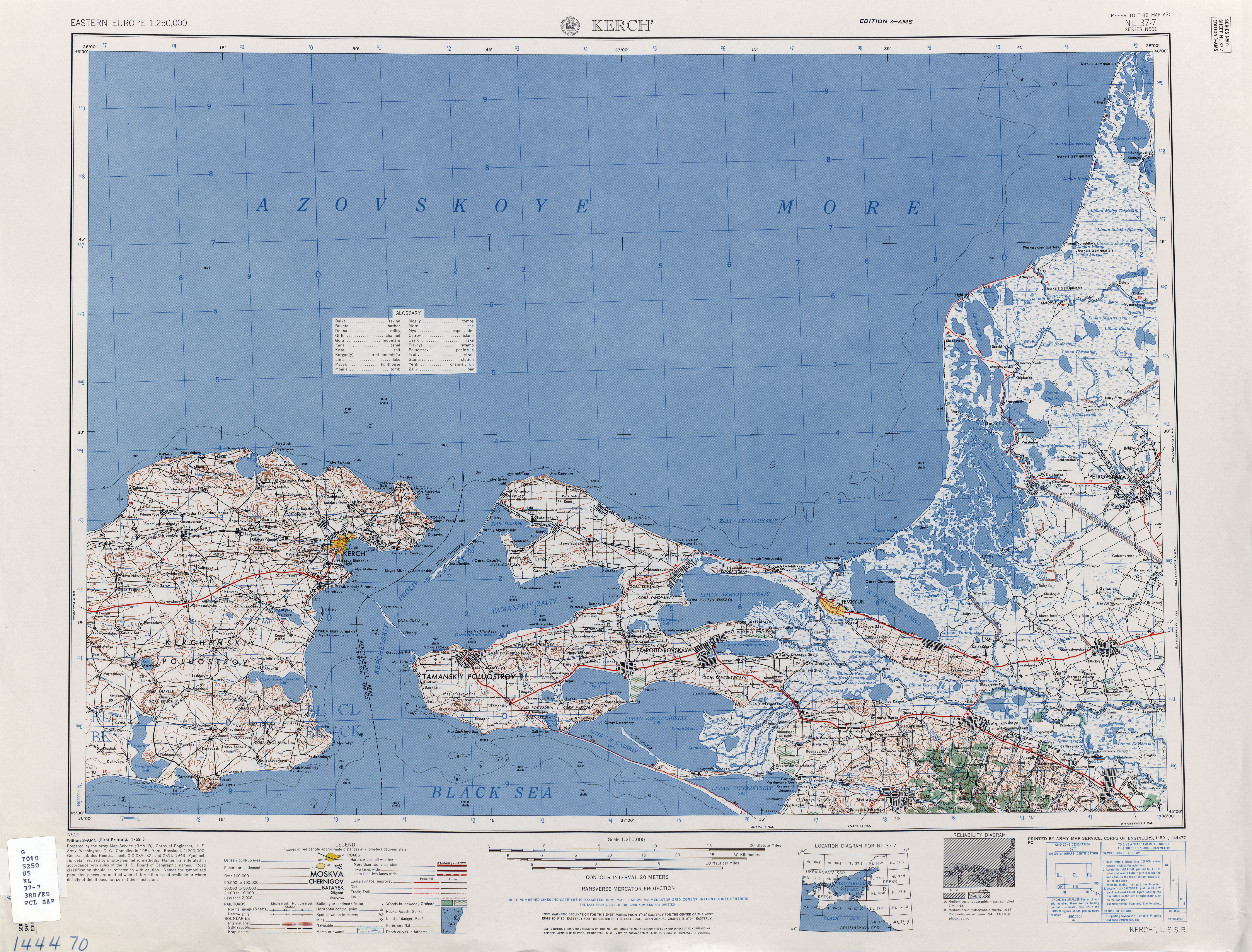 List from Eastern Europe AMS Topographic Maps. Series N501, U.S. Army Map Service, 1954. Shows mainly the strait and peninsula of Kerch, Taman peninsula and Kuban river delta within Krasnodar Krai as well as parts of the Black Sea and the Sea of Azov